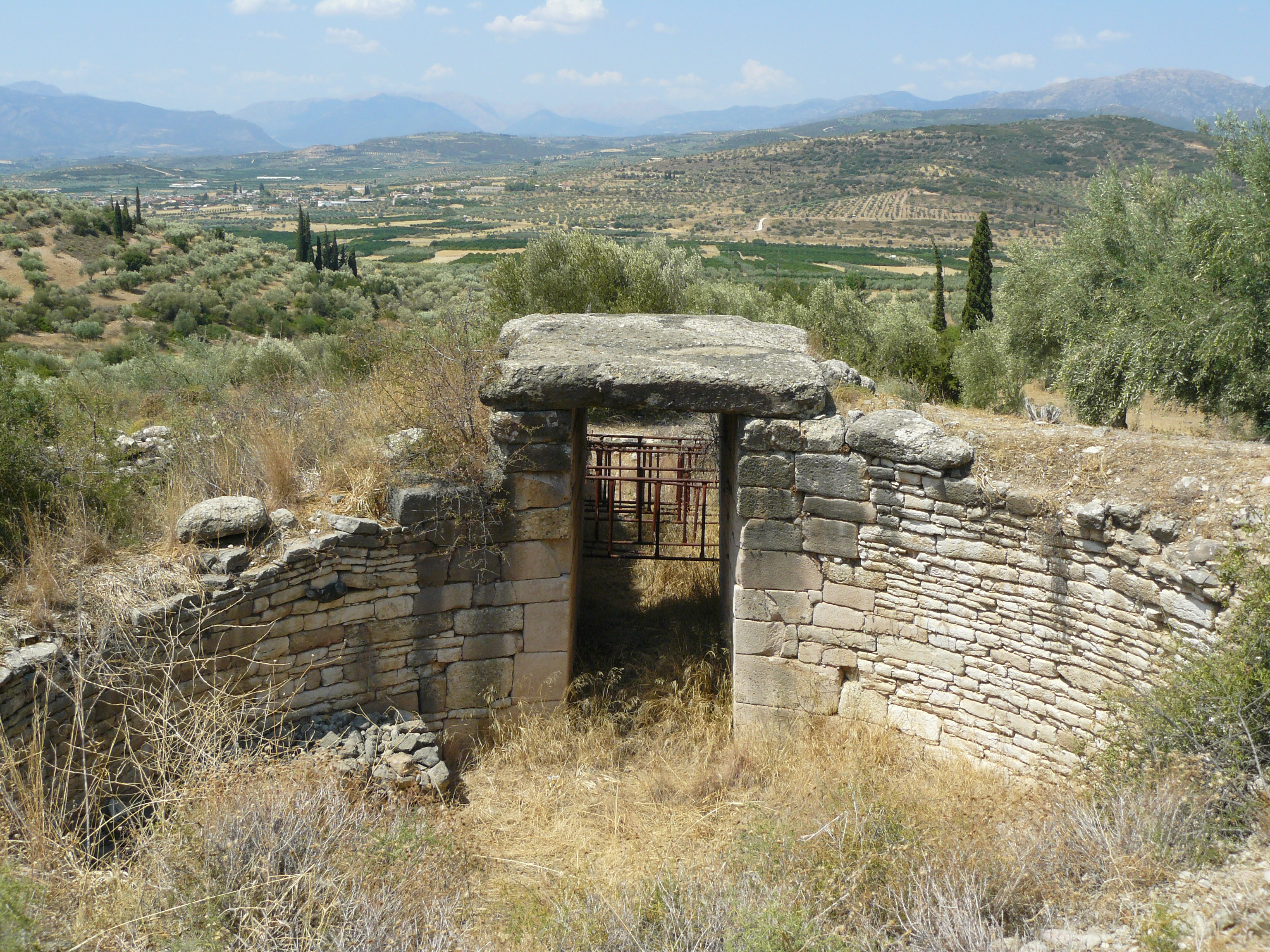 Mycenae: Door and tholos of the Tomb of Kato Phournos.